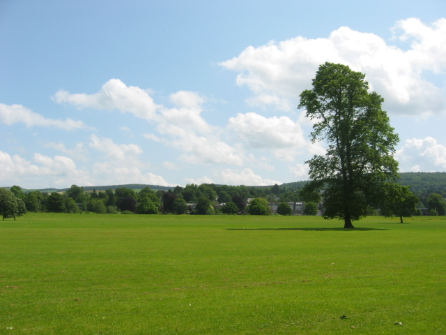 North Inch, Perth, Scotland.